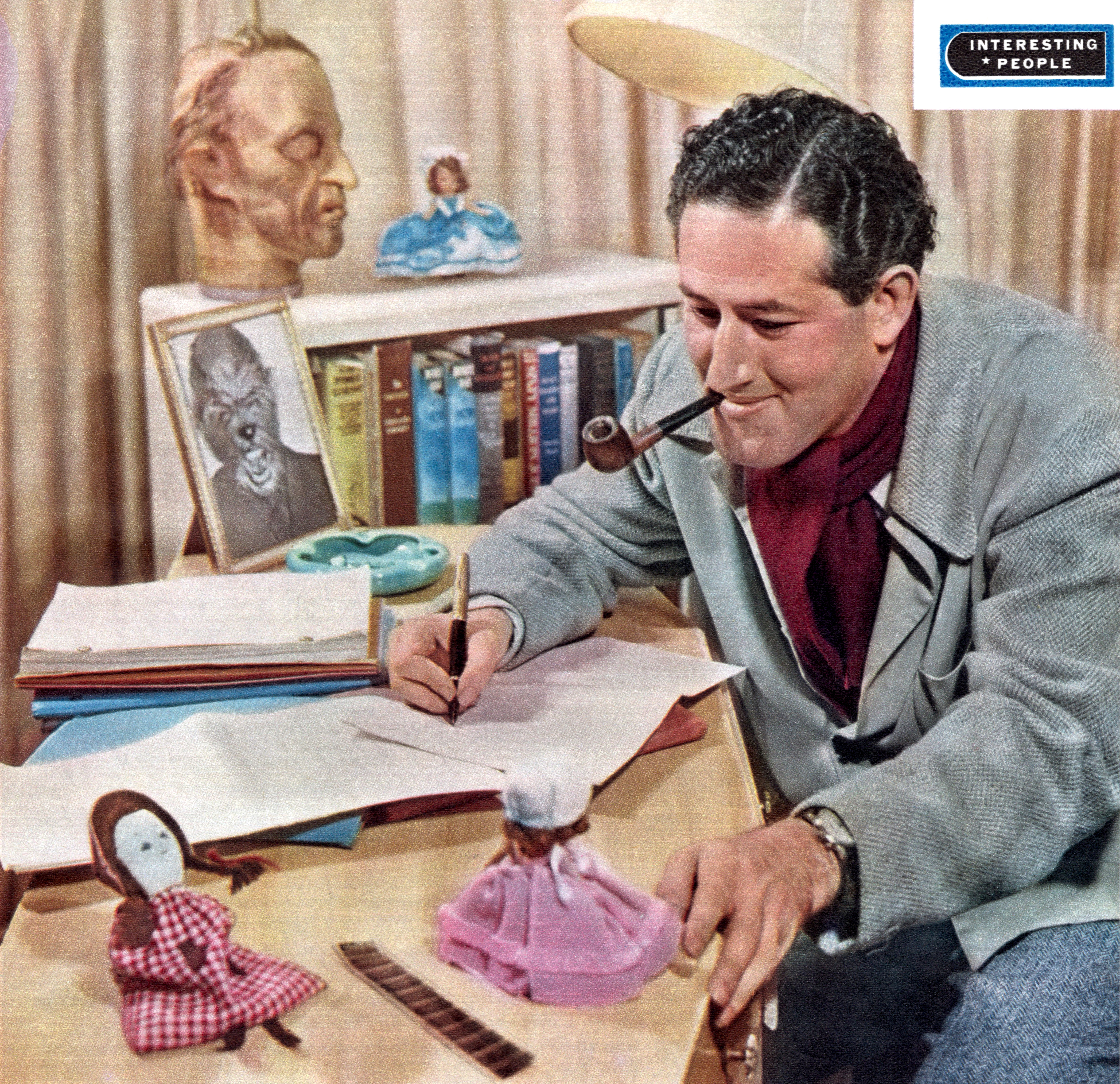 Photograph of William Castle